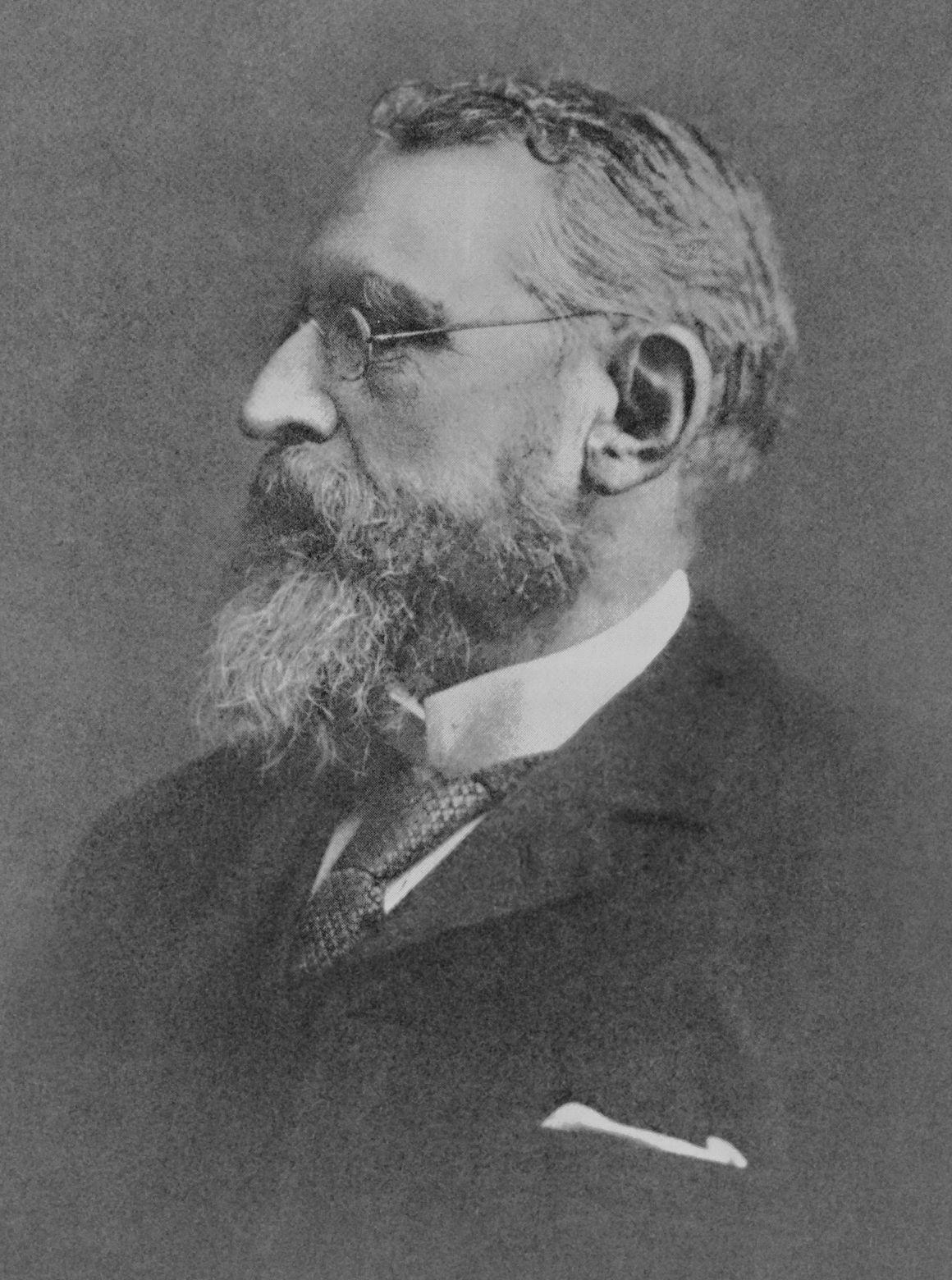 Image of William O'Brien MP, (1852–1928), Irish politician, journalist, social revolutionary, author and Member of Parliament in the Parliament of the United Kingdom of Great Britain and Ireland.